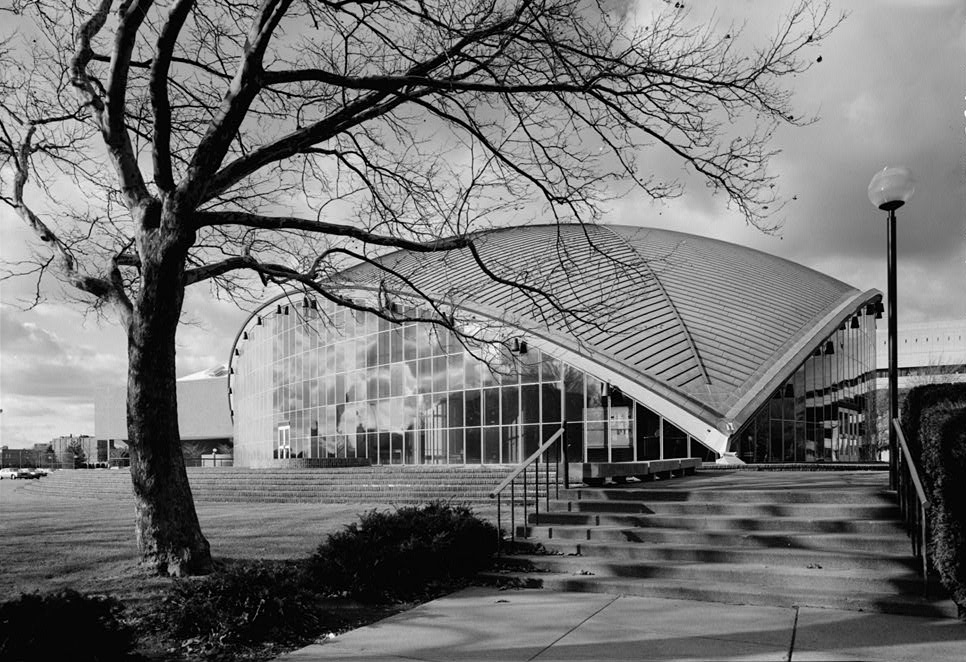 1953 Kresge Auditorium, MIT Campus